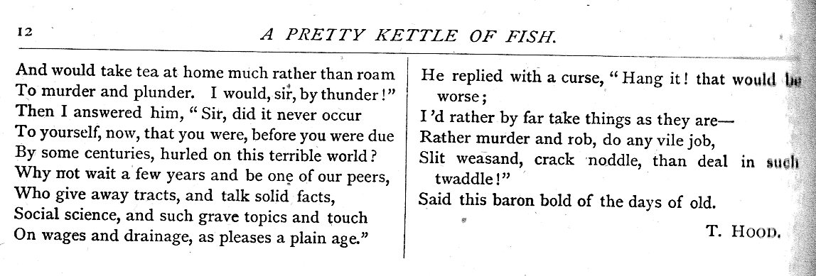 From Tom Hood's Comic Annual, 1875.